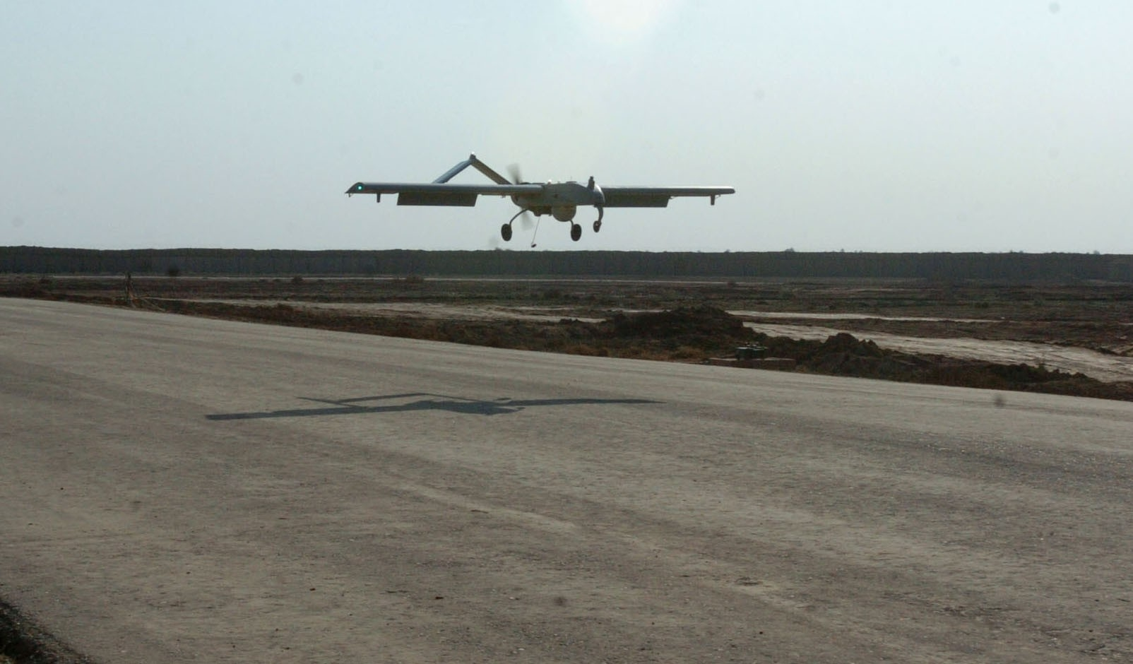 A Shadow 200 RQ-7B UAV begins the landing sequence following a flight to support troops with another set of eyes outside Forward Operating Base Kalsu.